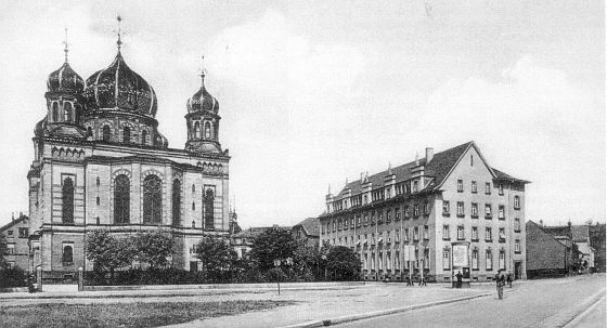 Photography of the synagogue of Kaiserslautern